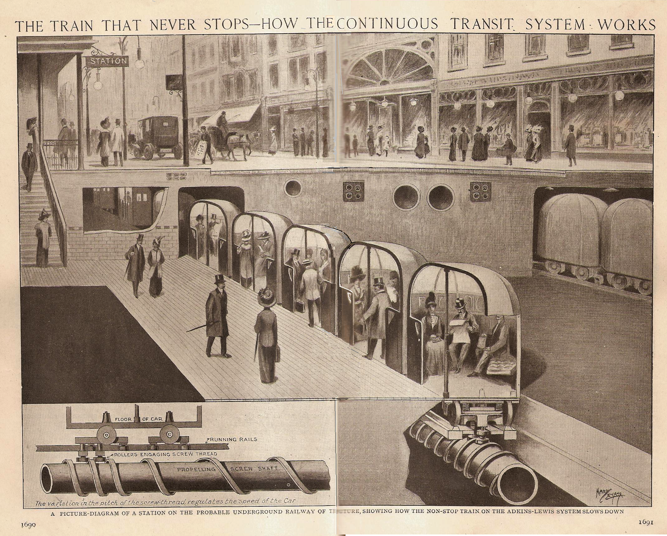 Diagram of a "probable underground railway of the future" c. 1913 showing sub-surface screw and carriages continuously driven forward by rollers (sprags). Originally printed in fortnightly magazine (14 days) and reprinted in bound edition (undated). More information about Harmsworth here.